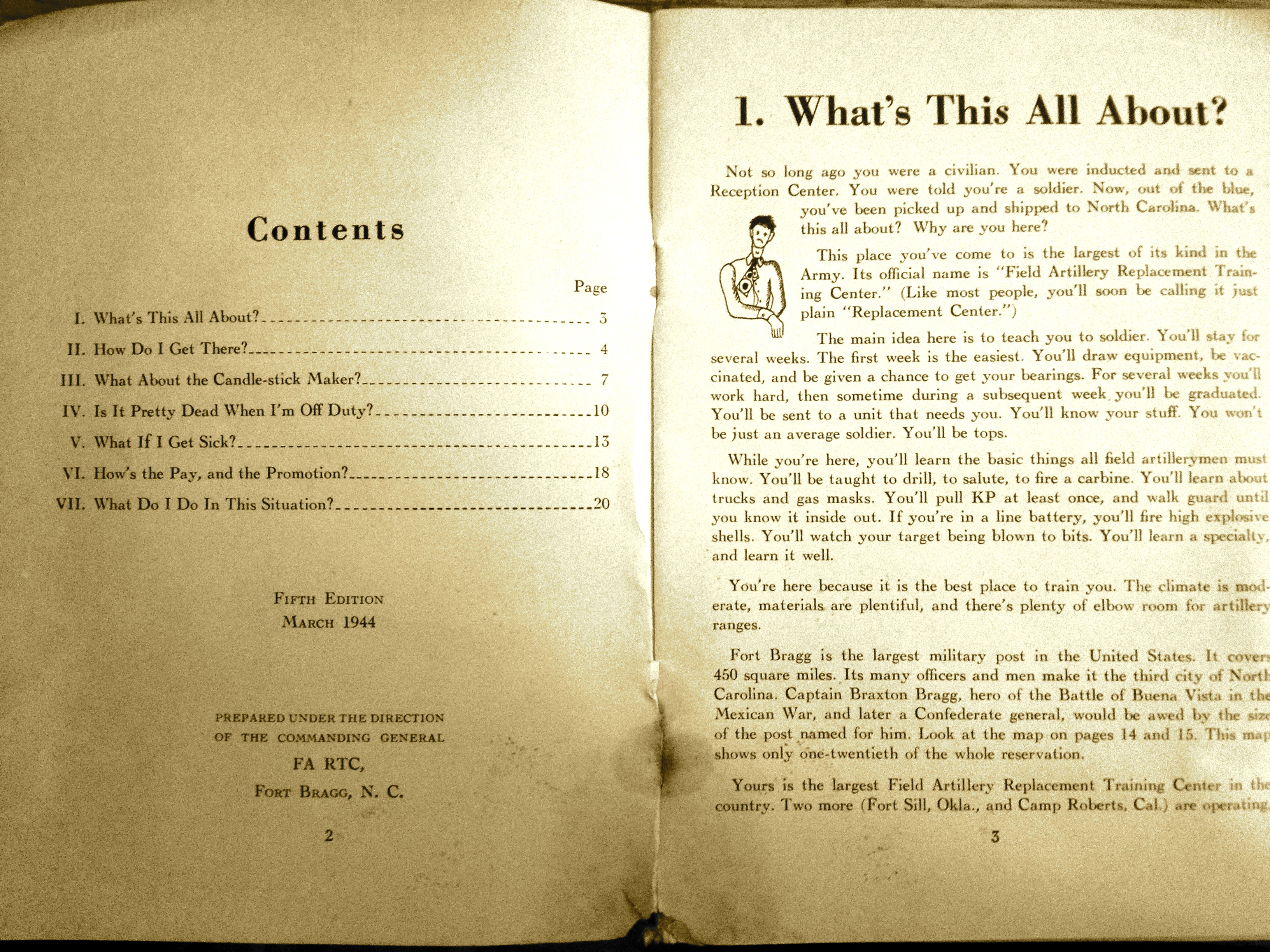 United States Government handbook written by famed travel writer Temple Fielding